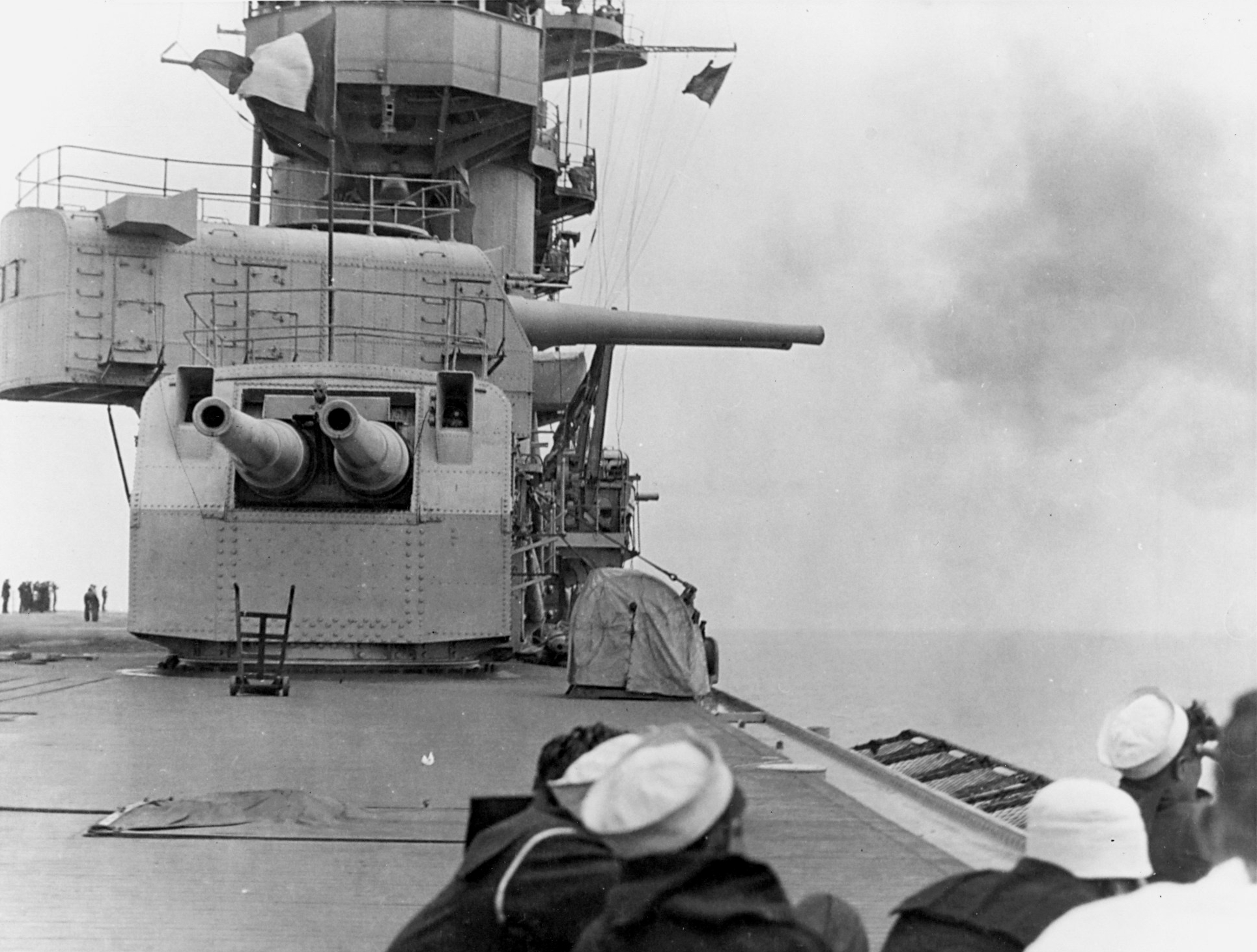 The U.S. Navy aircraft carrier USS Lexington (CV-2) firing her 55 caliber eight-inch guns, in 1928.